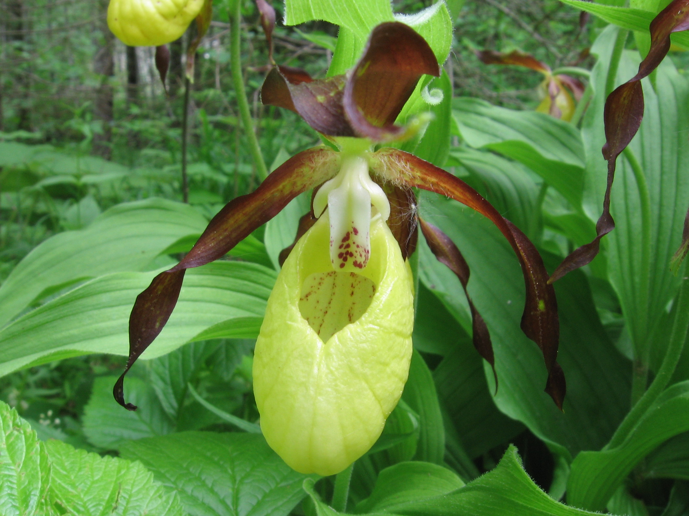 Cypripedium_calceolus in Les_Contamines-Montjoie